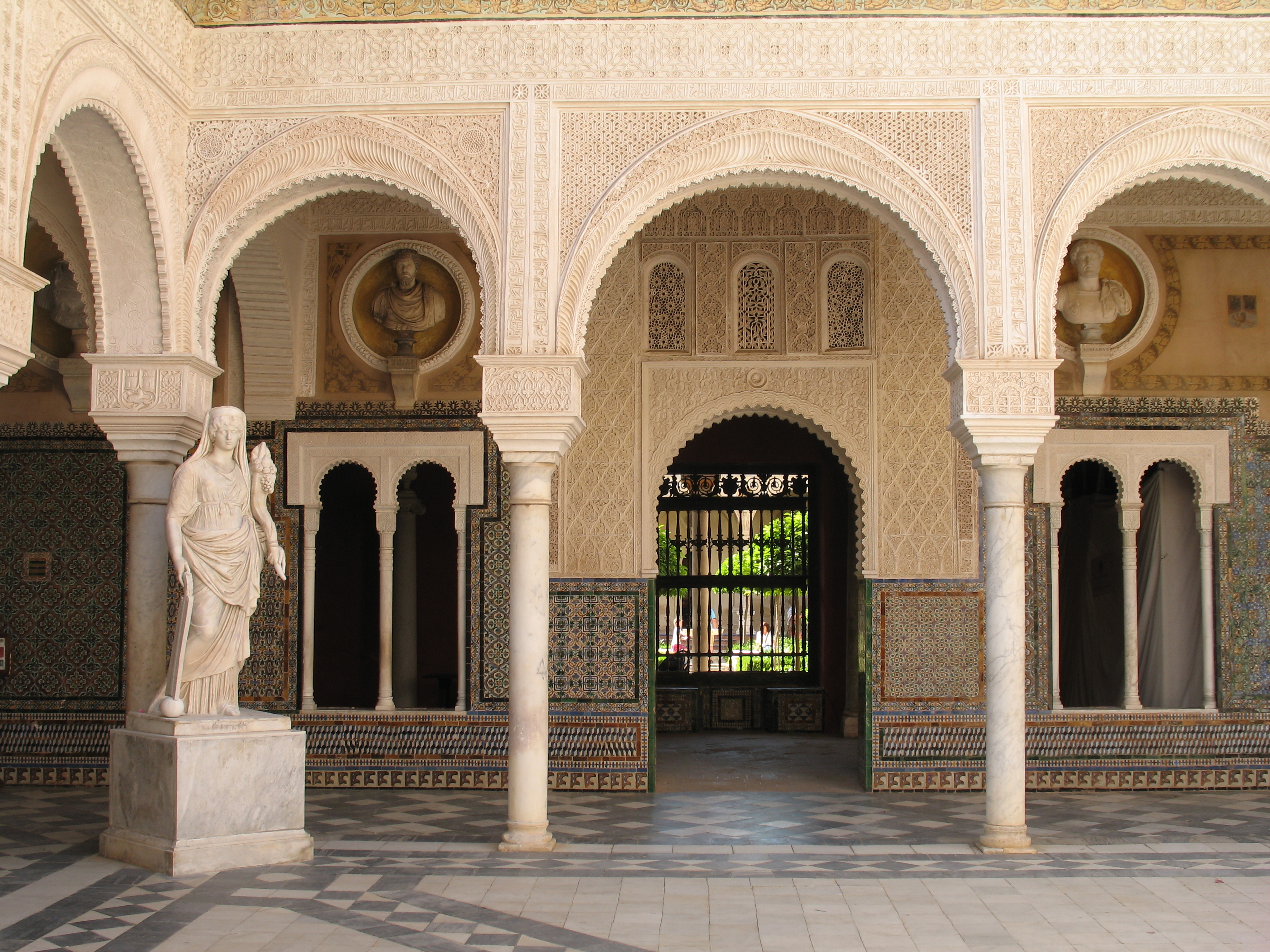 Casa de Pilatos (S. XVI). Renaissance and Mudéjar Palace in Seville. Courtyard.